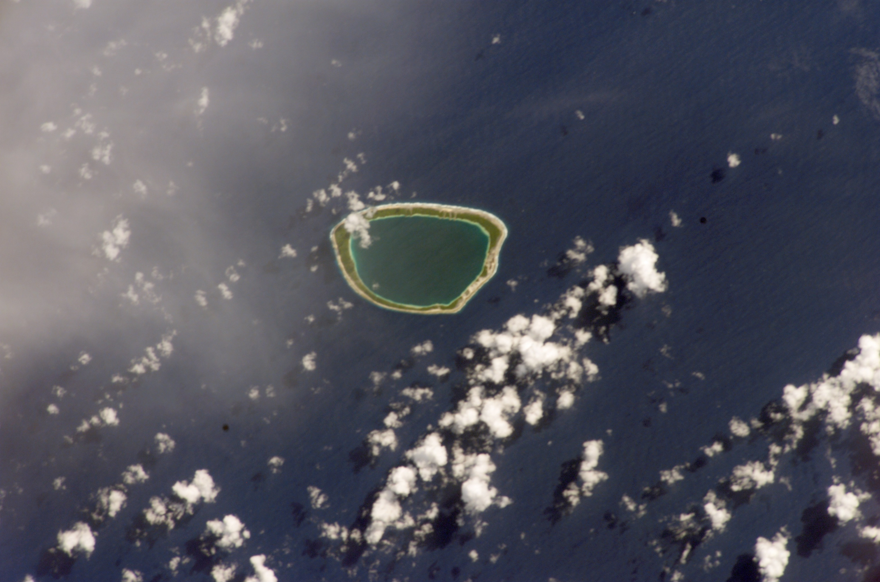 NASA astronaut image of Taiaro Atoll (Tuamotu Archipelago, French Polynesia) in the Pacific Ocean